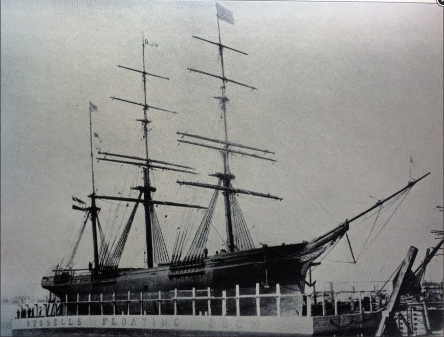 This photo is from the book, "American Clipper Ships 1833–1858," by Octavius T. Howe and Frederick C. Matthews, Vol. 1 (Salem, Mass.: Marine Research Society, 1926). The caption published in the book reads: "'Golden State,' 1363 tons, built at New York, in 1852. From a photograph showing her in dock at Quebec in 1884."